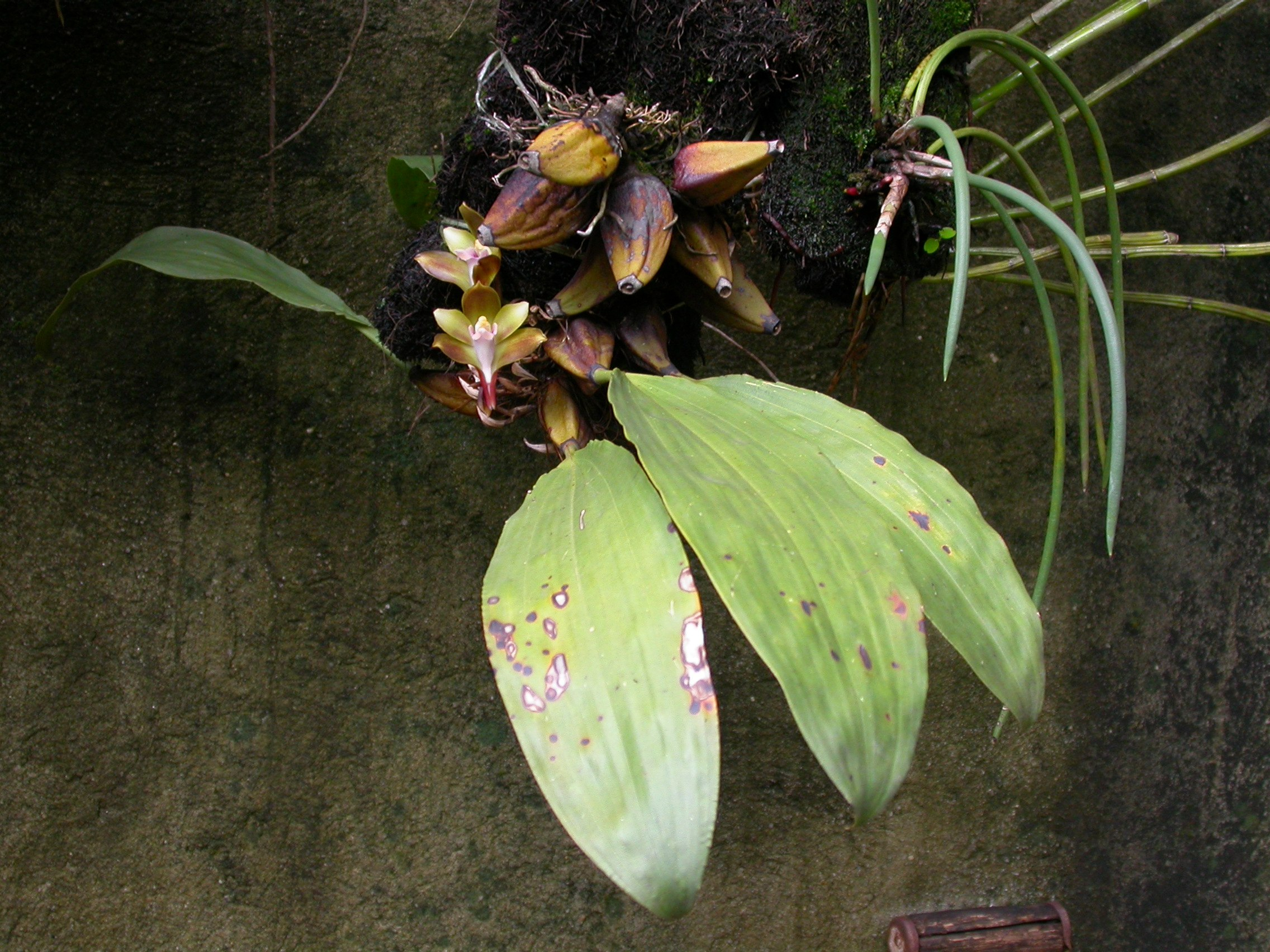 Bifrenaria mellicolor